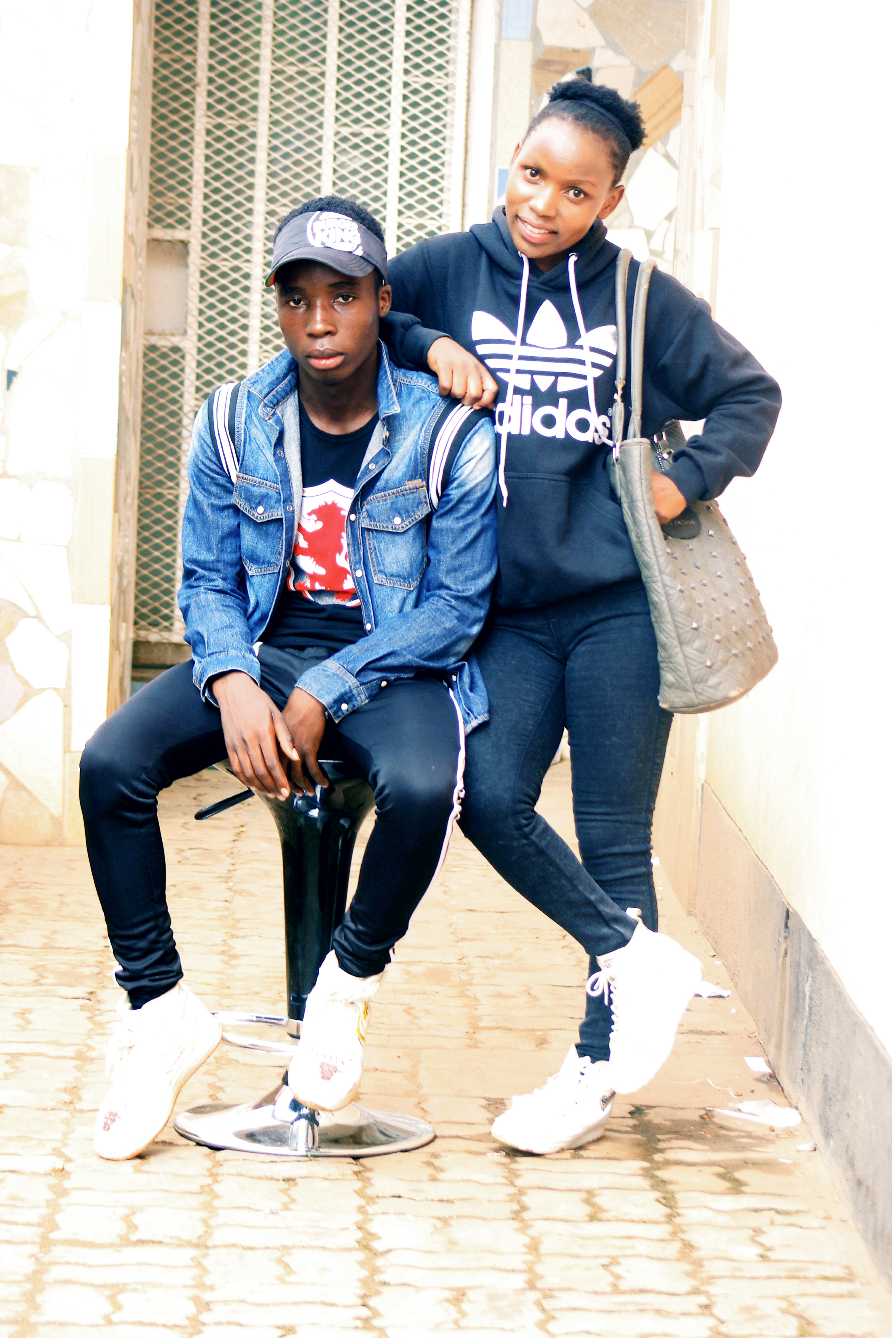 Yung rocxie & Linnah This is an image with the theme "Africa on the Move or Transport" from: Malawi